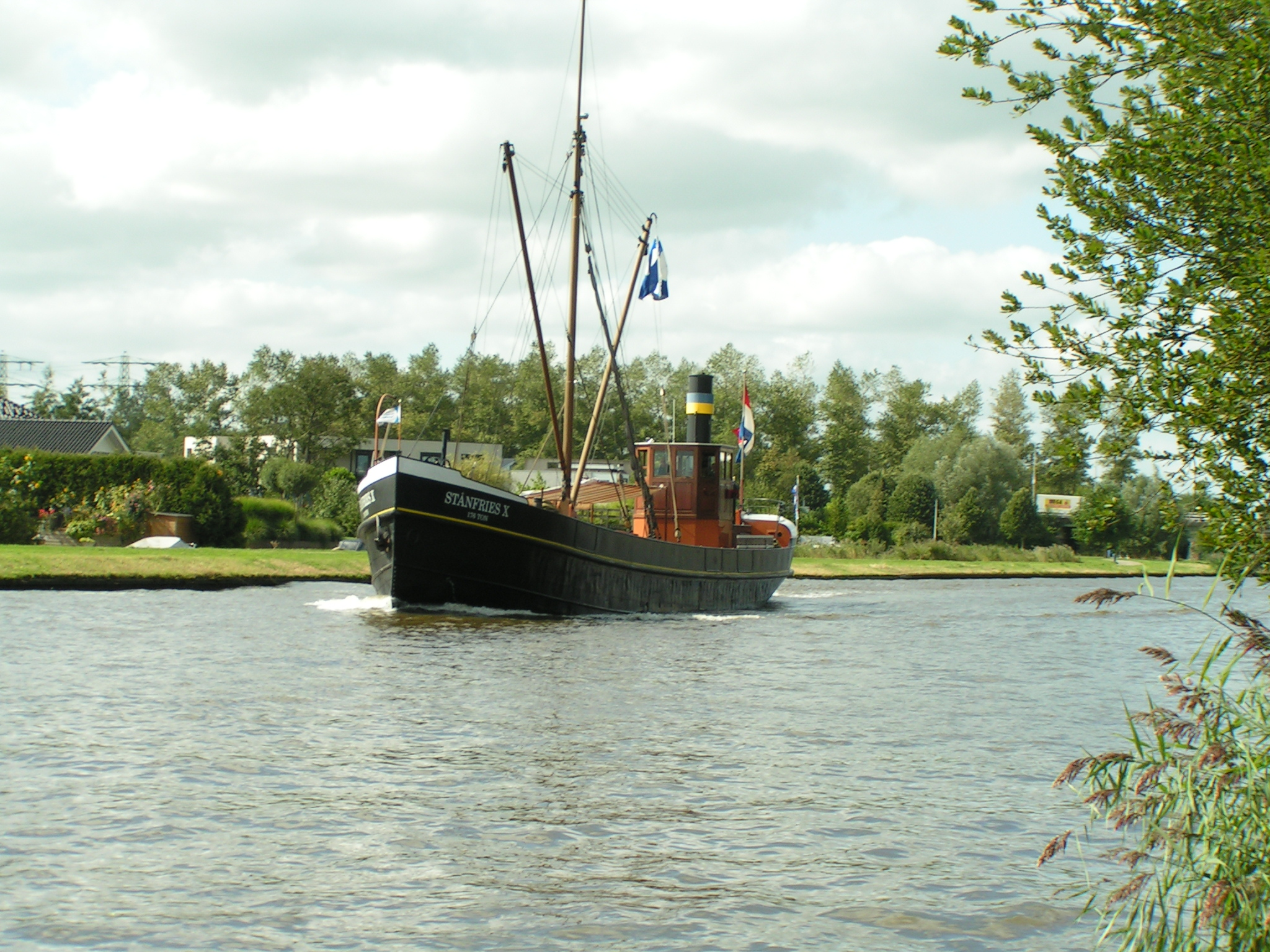 Barge "MV Stanfries X" - Scheepvaartmaatschappij Holland-Friesland / van der Schuijt, Van der Boom en Stanfries NV